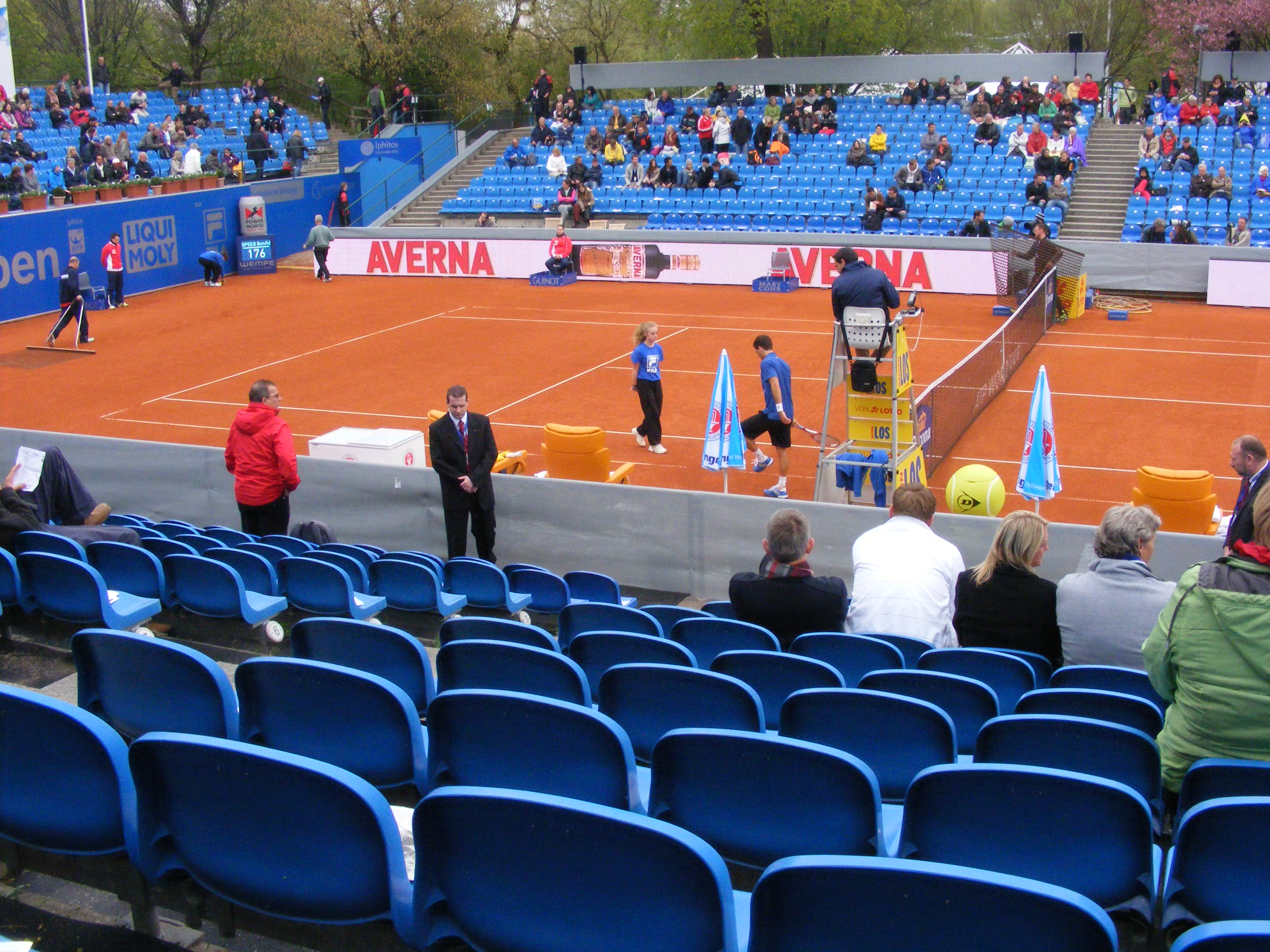 center court of MTTC Iphitos at BMW Open 2013